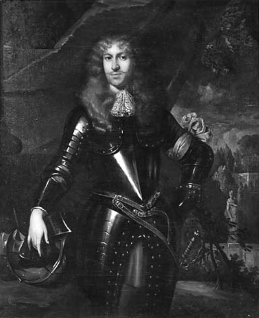 Portrait of Frederick of Nassau-Zuylestein attributed to Jan de Baan